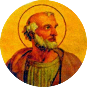 Portait of Pope Leo I in the Basilica of Saint Paul Outside the Walls, Rome